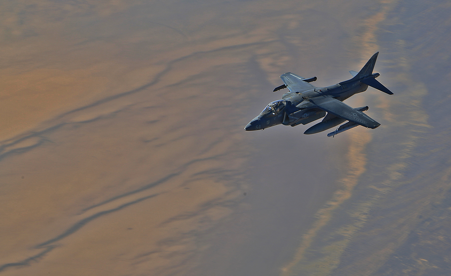 An AV-8B Harrier flies behind an aerial refueling plane above Africa in preparation for taking on fuel during an aerial refueling exercise Nov. 18, 2013. The 13th MEU is deployed with the Boxer Amphibious Ready Group as a theater reserve and crisis response force throughout the U.S. 5th Fleet area of responsibility. (USMC photo by SSgt. Matt. Orr/Released)